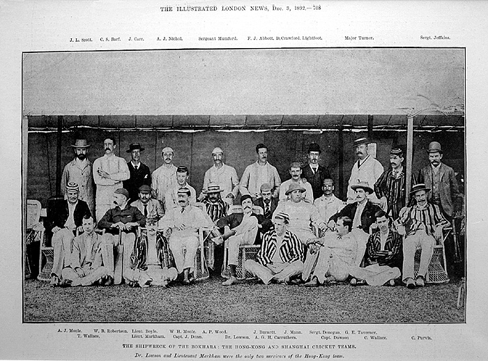 Picture taken October, 1892 in Shanghai, China. It was published in 'The Illustrated London News' later that year.